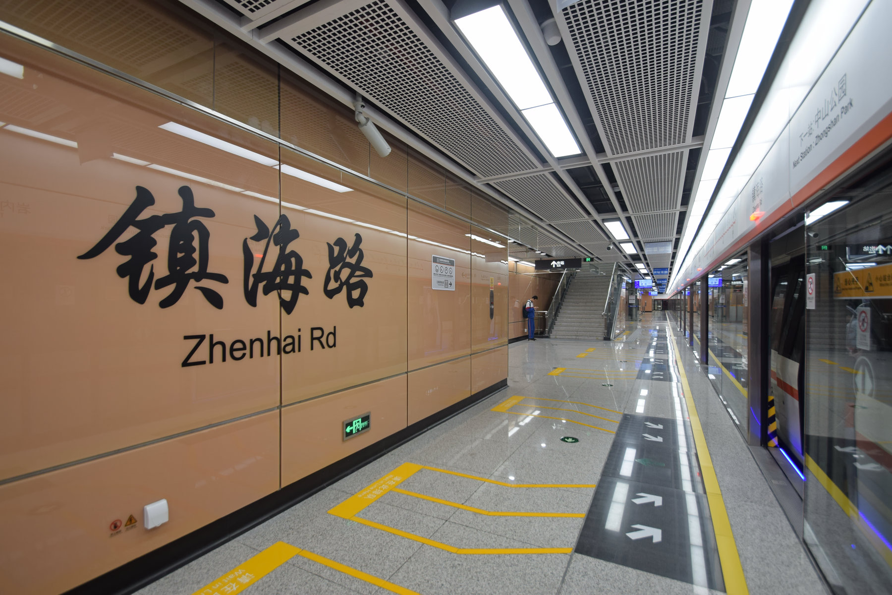 Line 1 Platform of Zhenhai Road Station, Xiamen Metro